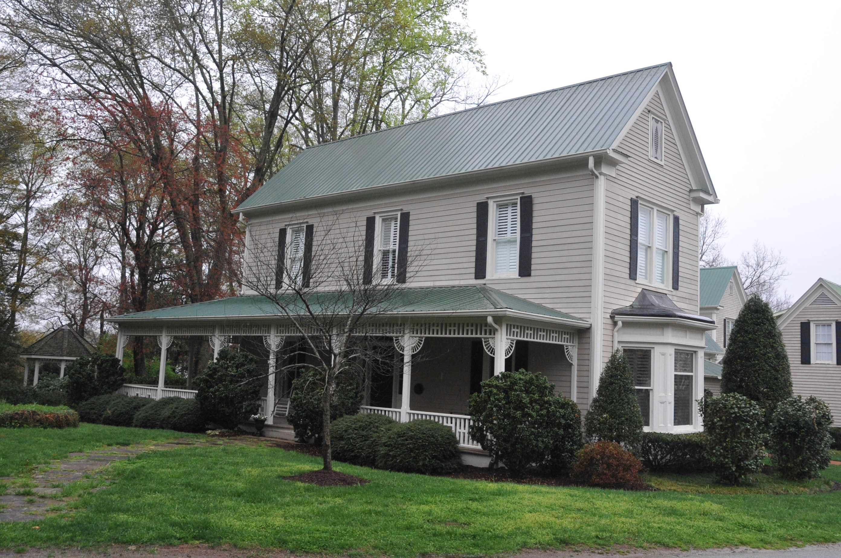 BUILT IN 1901 BY HENRY ASBURY, OWNER OF A HARDWARE STORE ON THE SQUARE; HOUSE IS NOW OCCUPIED BY THE MAYOR OF CLARKSVILLE